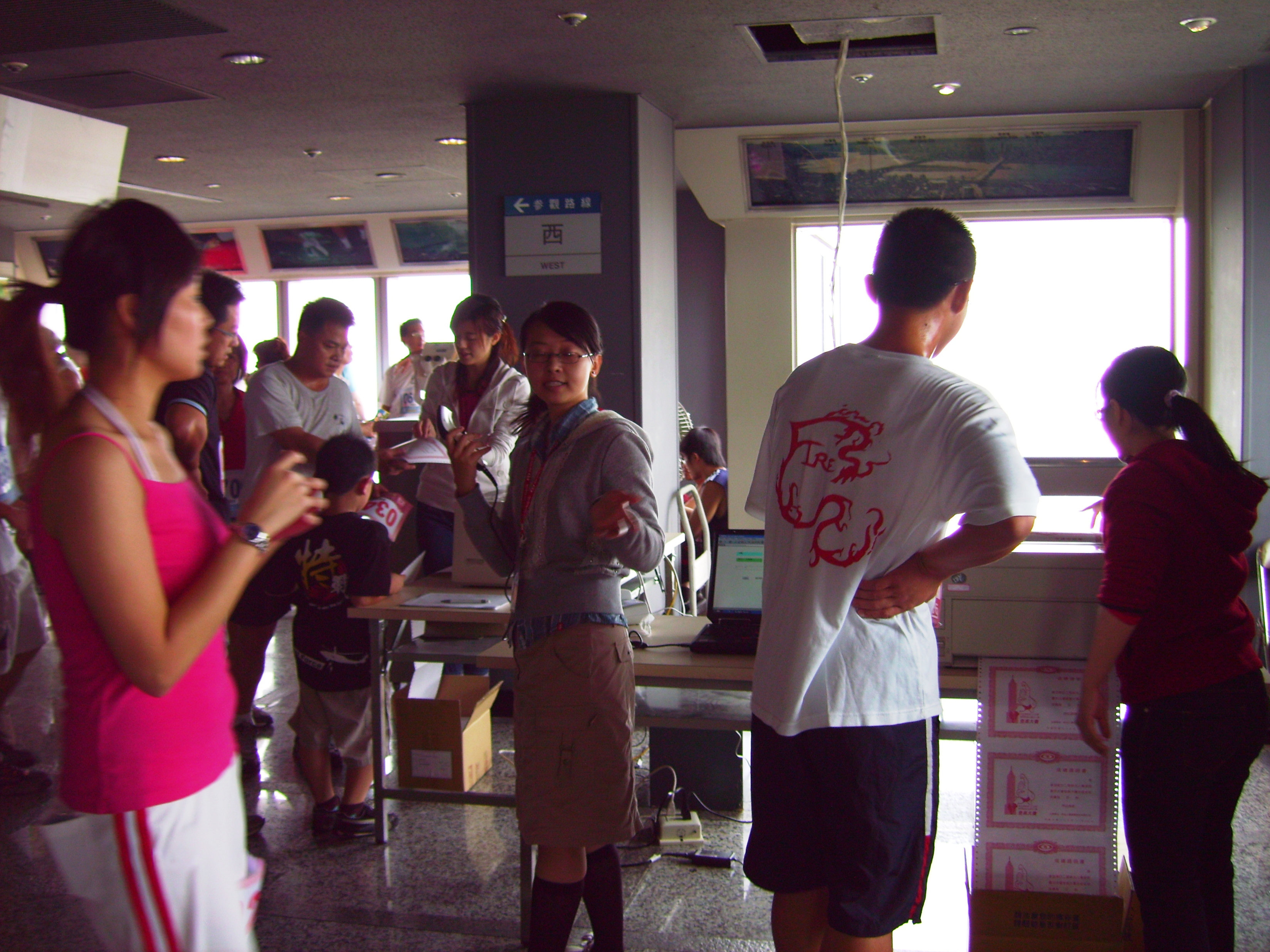 Score Printing Area in the 46th floor at SKL Run Up.